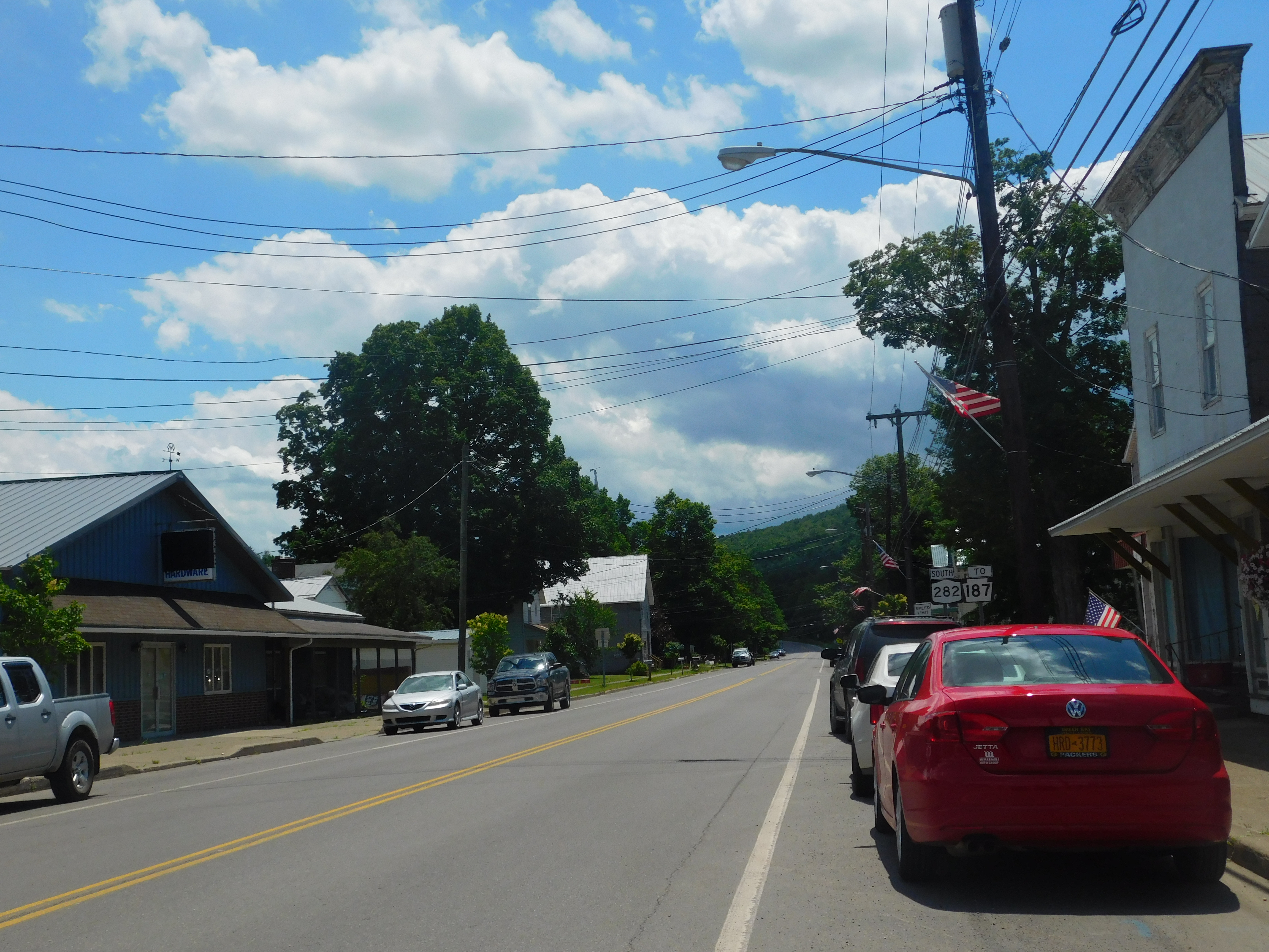 NY 282 heading through downtown Nichols village, New York.